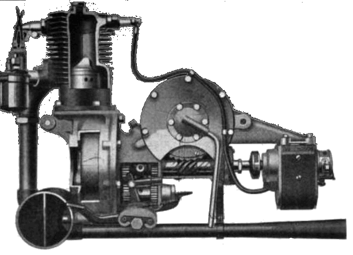 Cleveland Motorcycle Manufacturing Company advertisement, 1916. Two stroke longitudinal crankshaft single cylinder engine. Cutaway view showing worm drive on crankshaft connecting engine with magneto. Worm drive turns two speed transmission, connected to chain final drive.